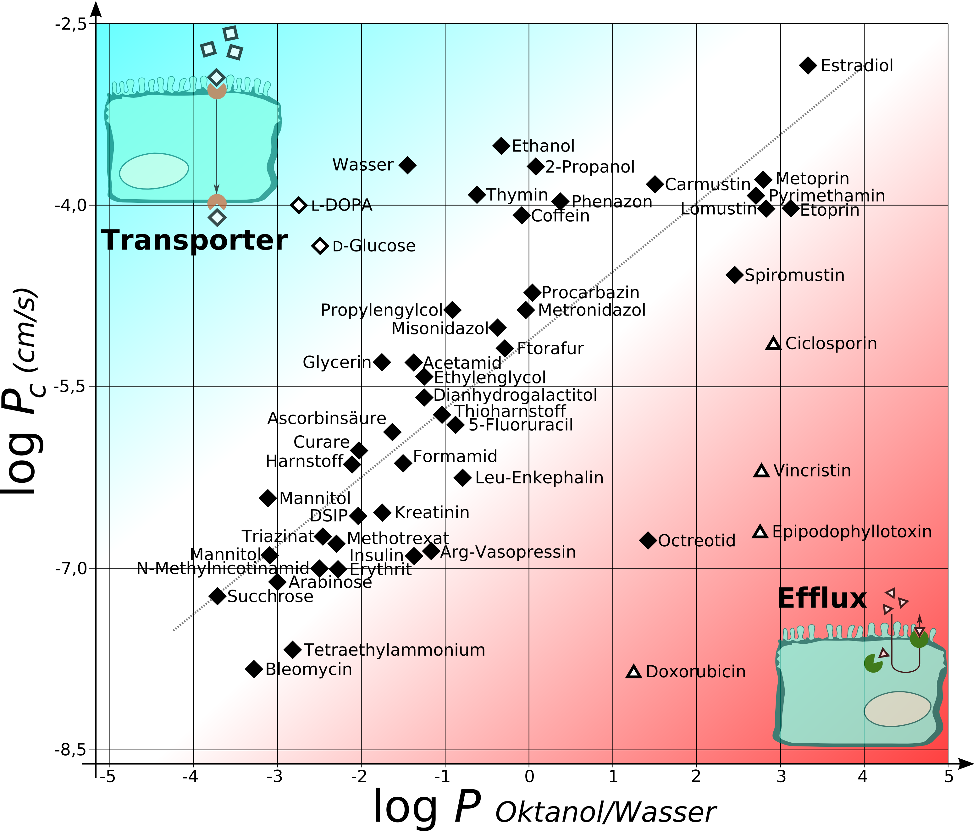 Diagram displaying log P (octanol/water) at the X-axis vers. log Pc (permeability coefficient of rat brain capillaries in cm per second) for various drugs, solvents and other compounds. Data taken from N. Bodor and P. Buchwald: Recent advances in the brain targeting of neuropharmaceuticals by chemical delivery systems. In: Adv Drug Deliv Rev 36, 1999, pp. 229-254. PMID 10837718